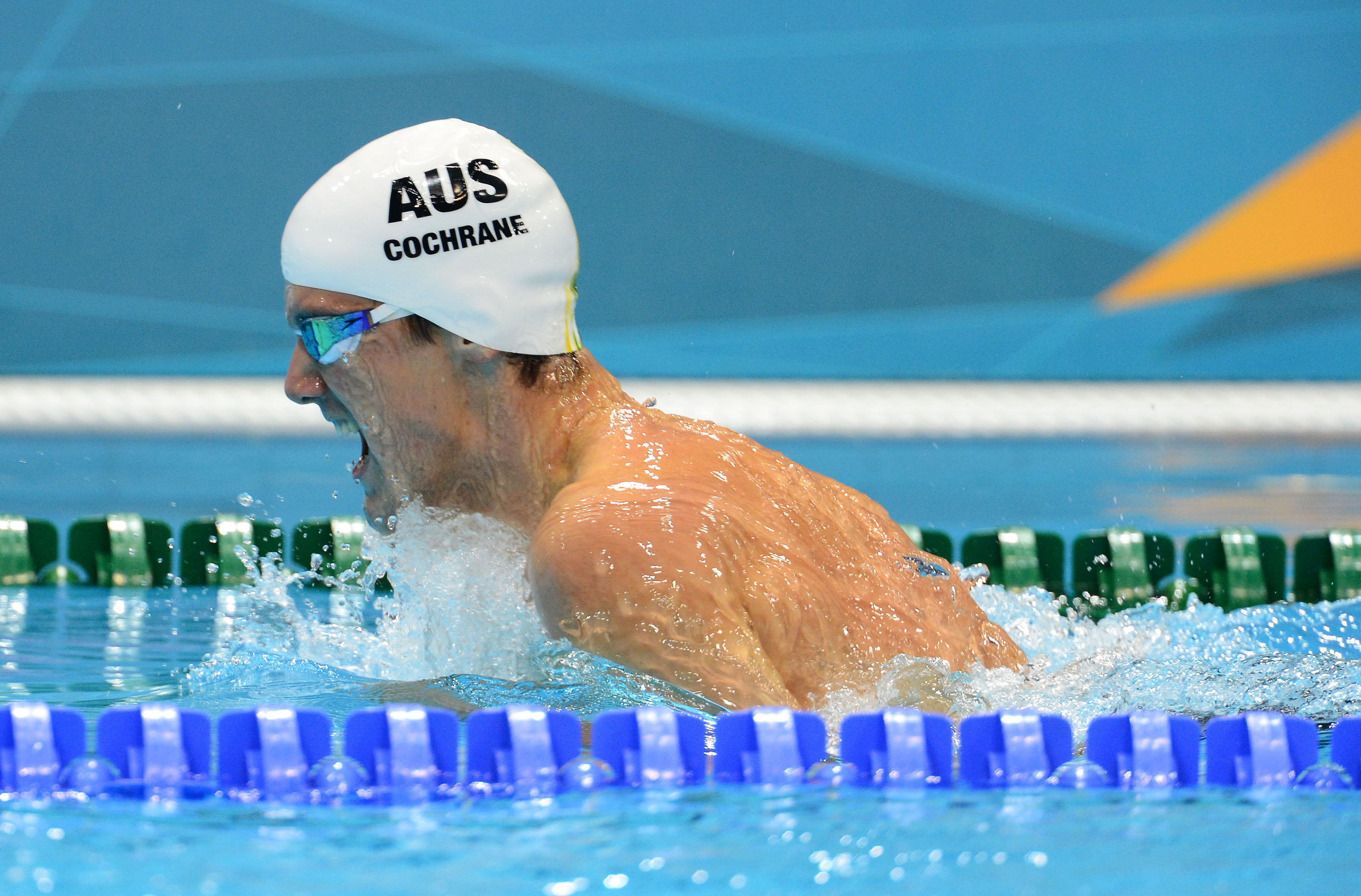 Photograph of Australian Paralympic team member Blake Cochrane at the 2012 Summer Paralympic Games in London